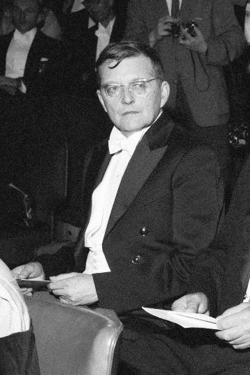 Photograph of the Russian composer Dmitri Shostakovich (1906–1975) during his visit to Finland.